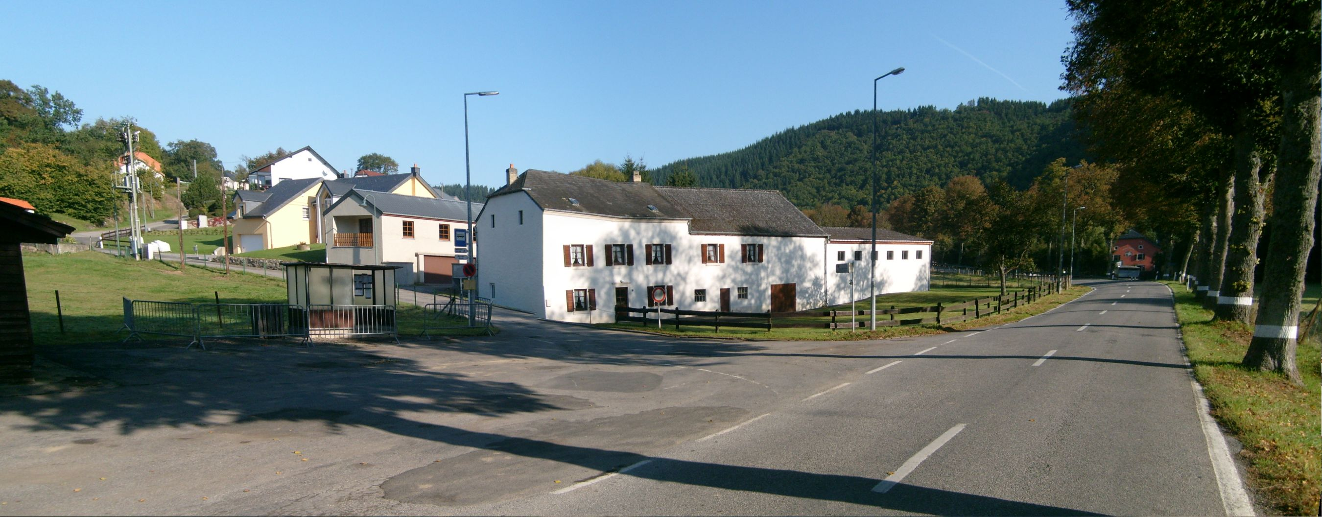 The village Obereisenbach, Luxembourg.